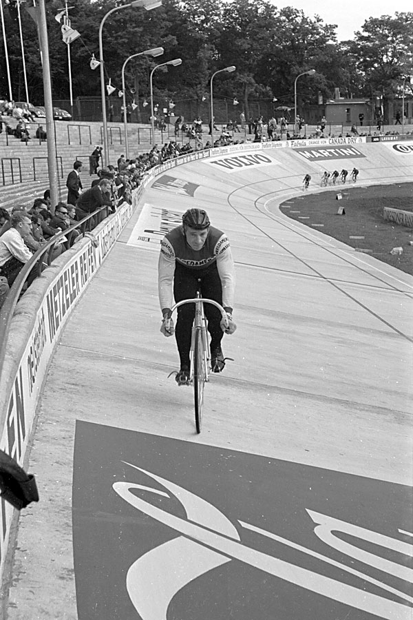 Ron training on the outdoor velodrome at Frankfurt during the 1966 World Championships. Ron won Australia's only medal that year - a silver in the pro sprint behind Giuseppe Beghetto (Italy).